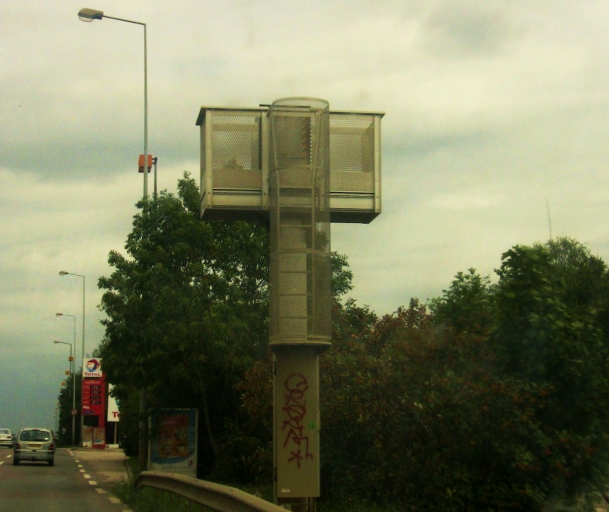 Traffic enforcement camera of Dole street, in Besançon (Doubs, France).